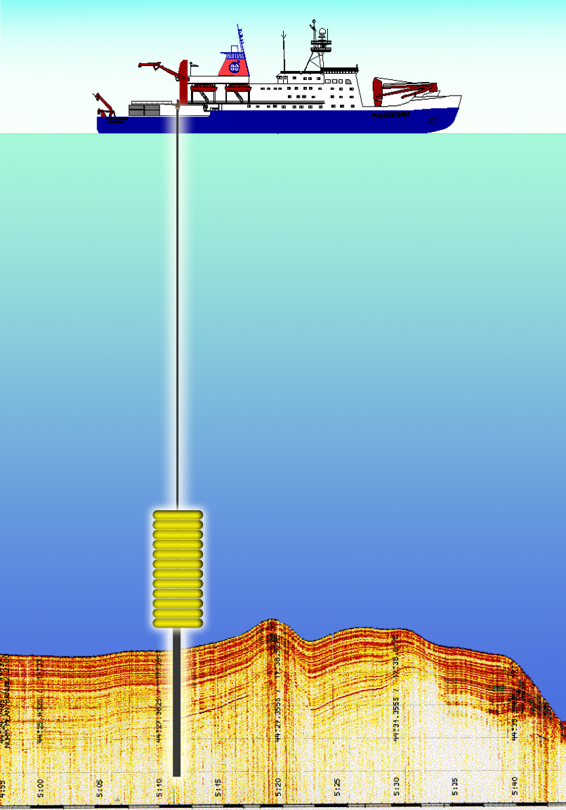 Scetch of a gravity corer. The system consists of a lead weight (1-3 to, yellow) on top of a sequence of steel tubes (about 5 m in length, 9 to 12 cm diameter). It is used to sample the ocean floor from research vessels to recover sediment cores. The graf at the bottom shows an example record of a sediment echosounder (ParaSound, Atlas Electronic GmbH) which is used as pre-site survey to find suitable coring stations.